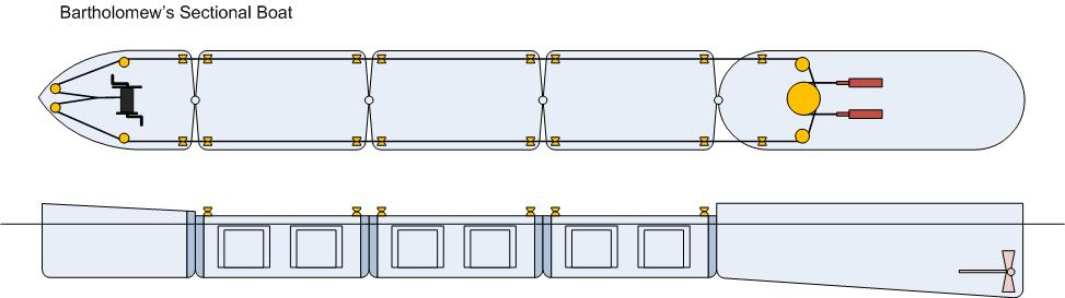 Diagram of Bartholomews Sectional Boat for use on the Aire and Calder Canal, based on patent drawing of 1862, with revised steering from 1866.